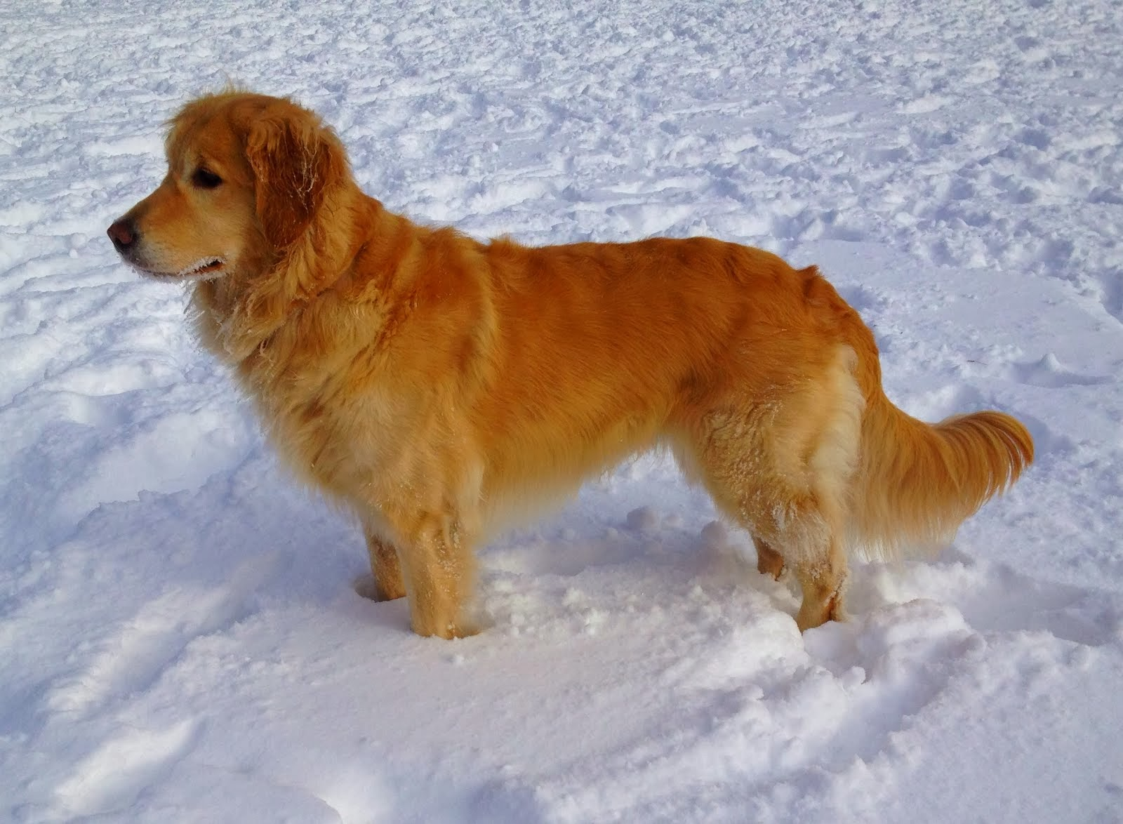 Golden Retrievers love snow.